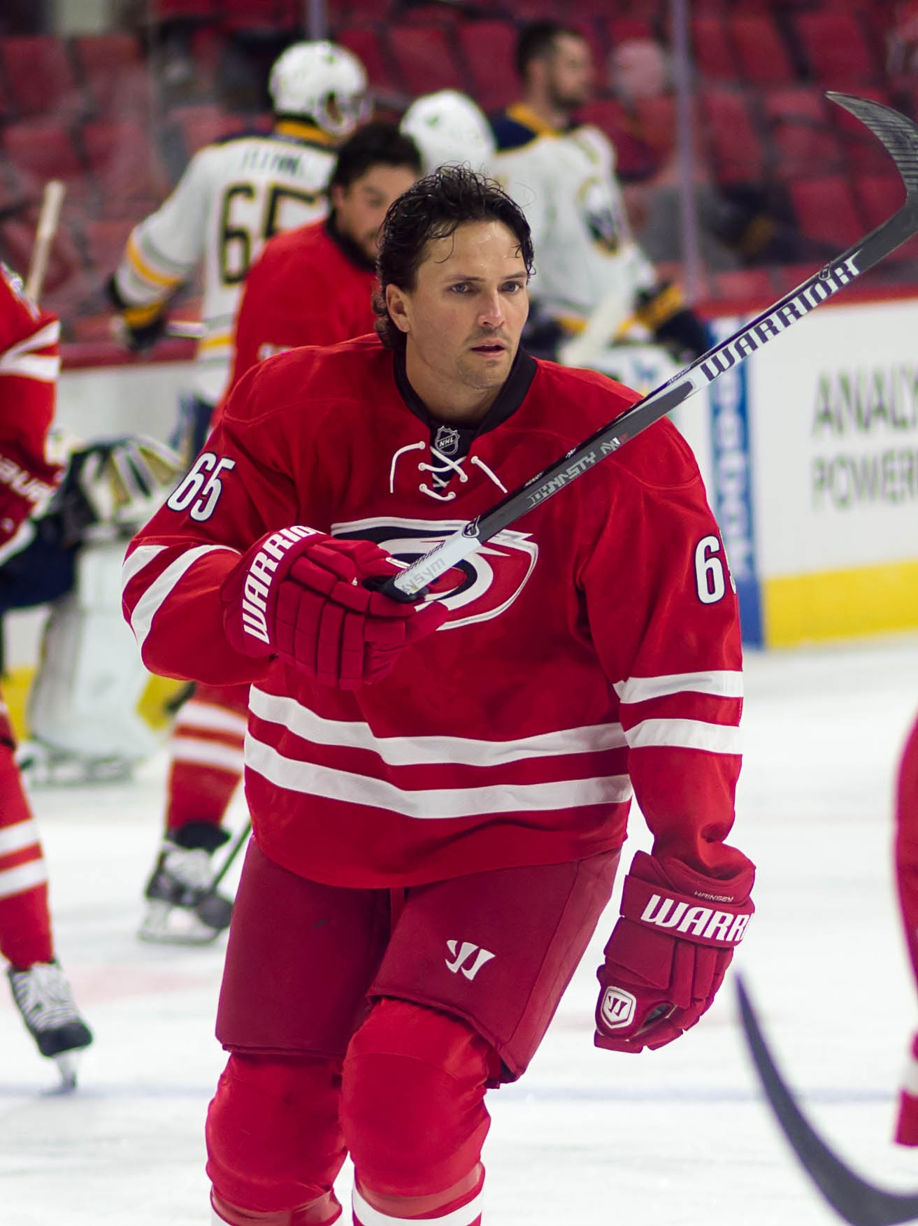 Ron Hainsey with the Carolina Hurricanes in 2014.